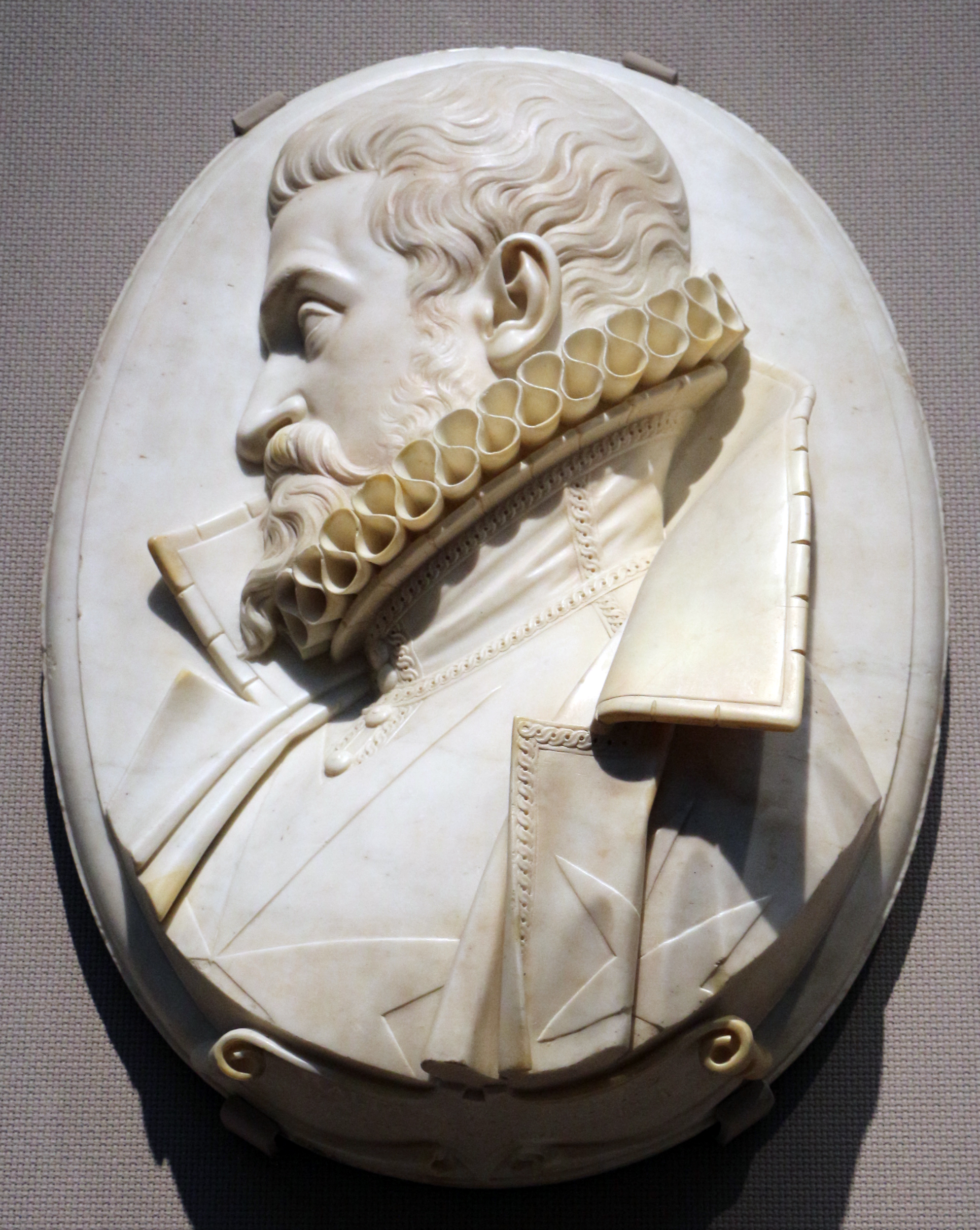 Sculptures in the Toledo Museum of Art